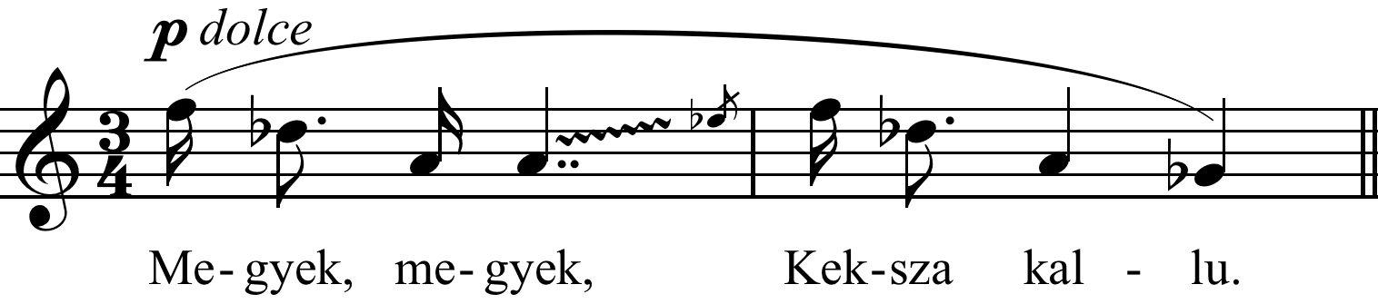 music example of portamento, self-made. Judith's first line in Duke Bluebeard's Castle (1912)